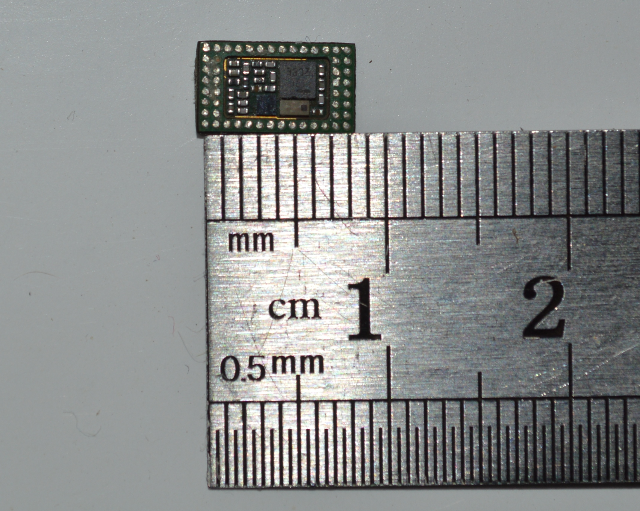 integrated circuit and is components